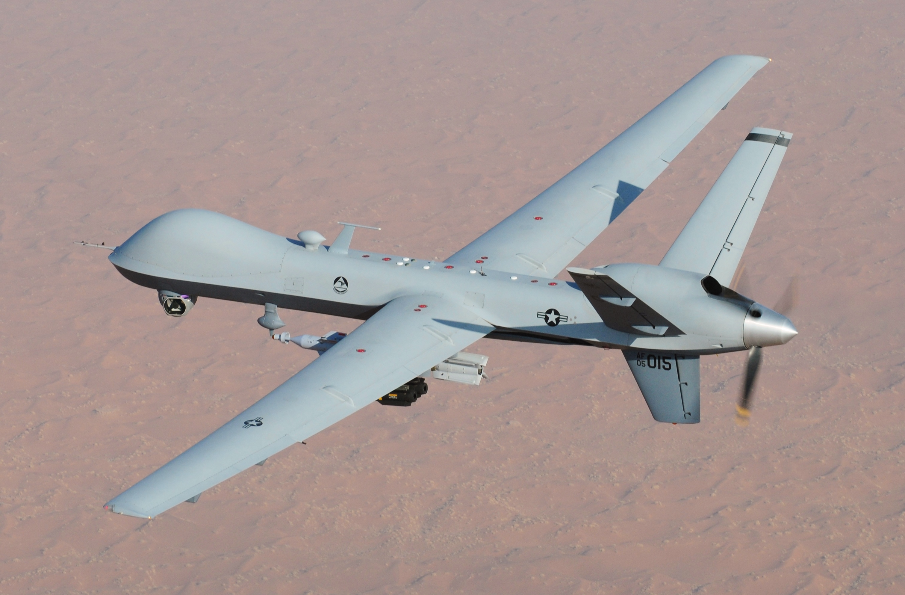 An MQ-9 Reaper unmanned aerial vehicle flies a combat mission over southern Afghanistan